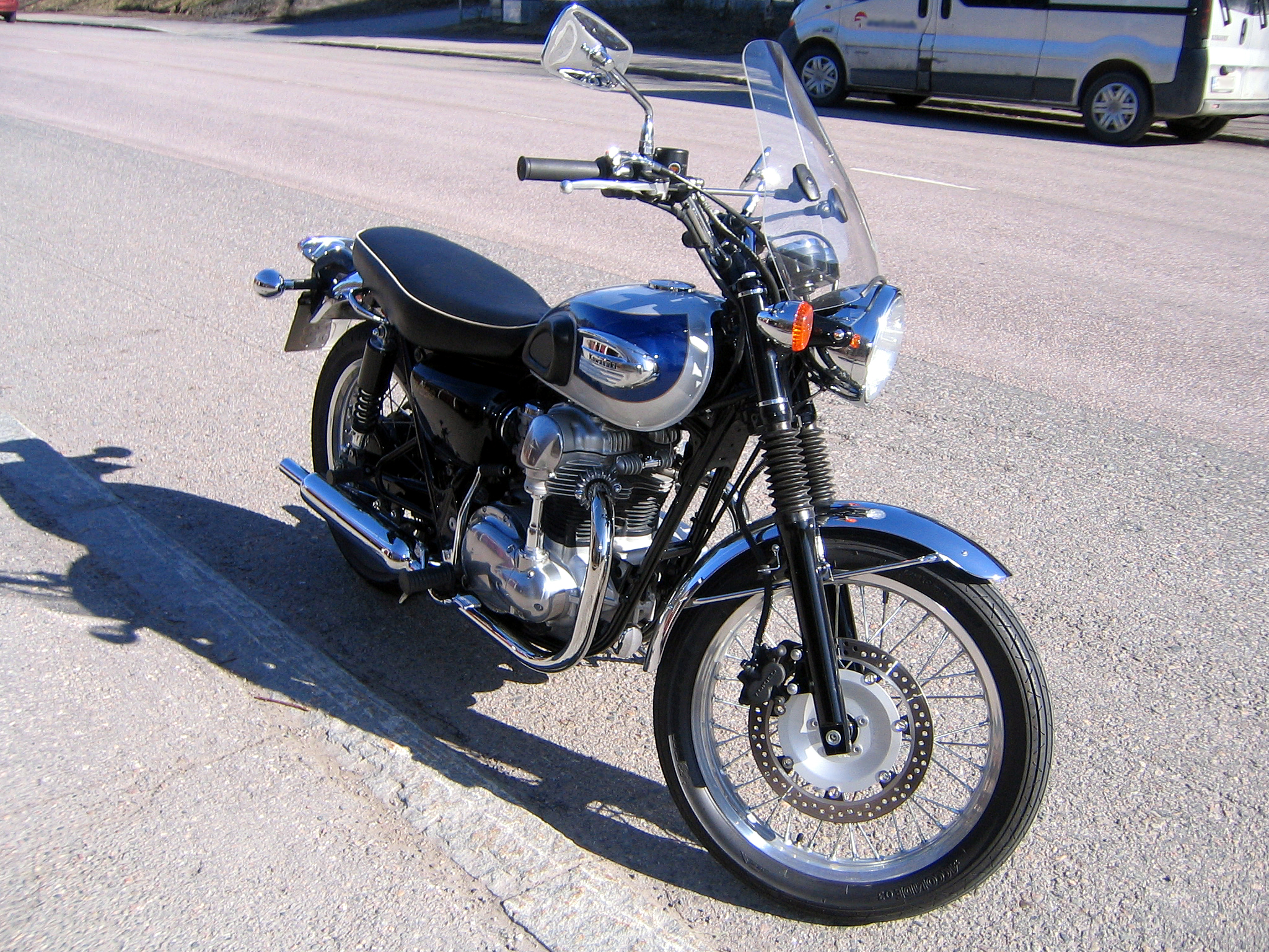 Kawasaki´s retro motorcycle W650 (2000 model), equipped with a bevel drive.